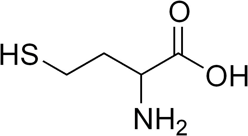 chemical structure of homocysteine without defined stereochemistry